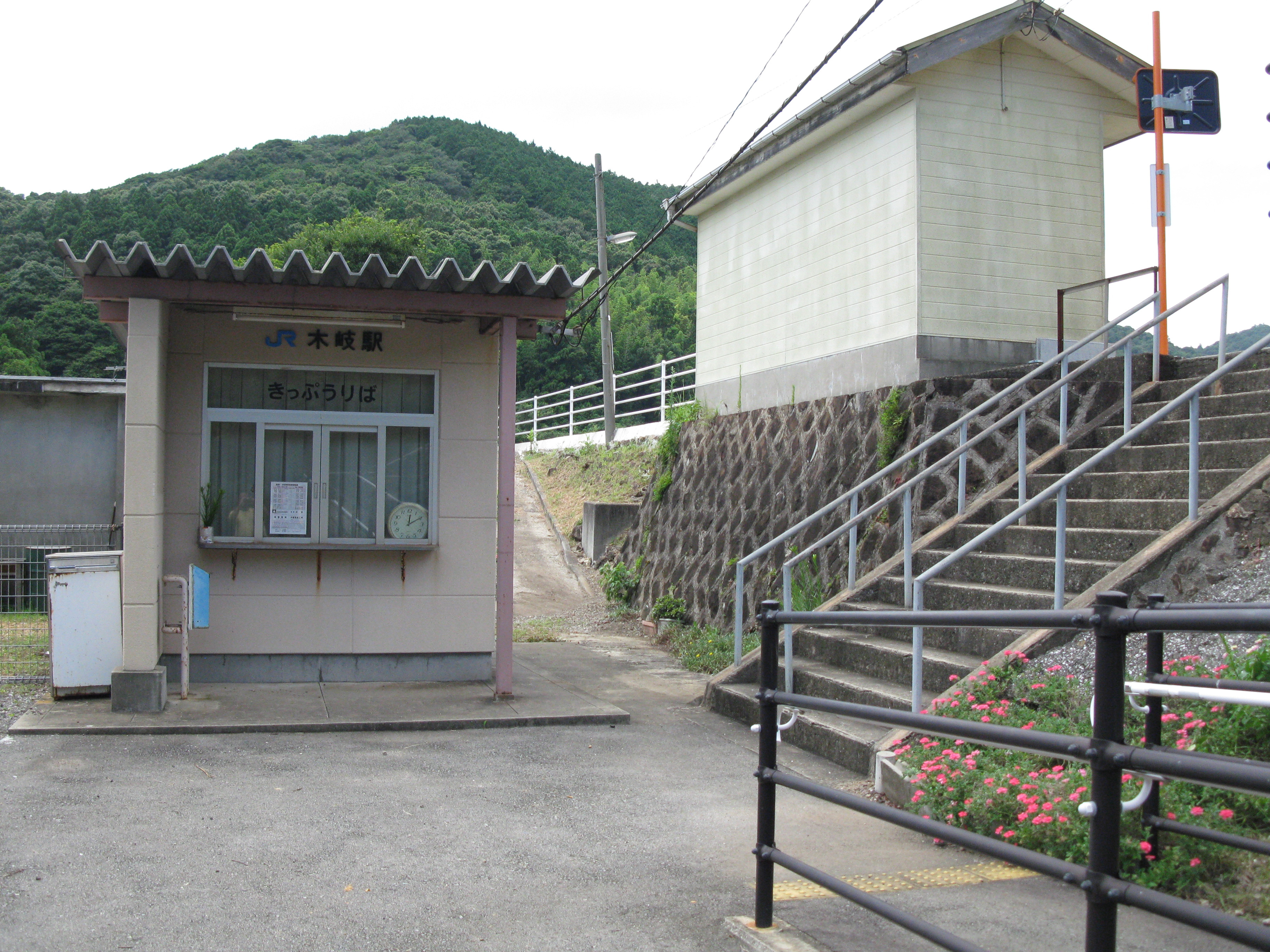 The entrance to Kiki Station on the Shikoku Railway(JR Shikoku) Mugi Line in Minami town, Tokushima prefecture, Japan